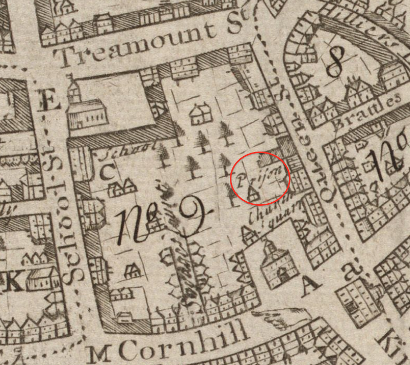 Detail of 1743 map of Boston by William Price, showing the prison (off Queen St.); Old Brick church; King's Chapel and vicinity.